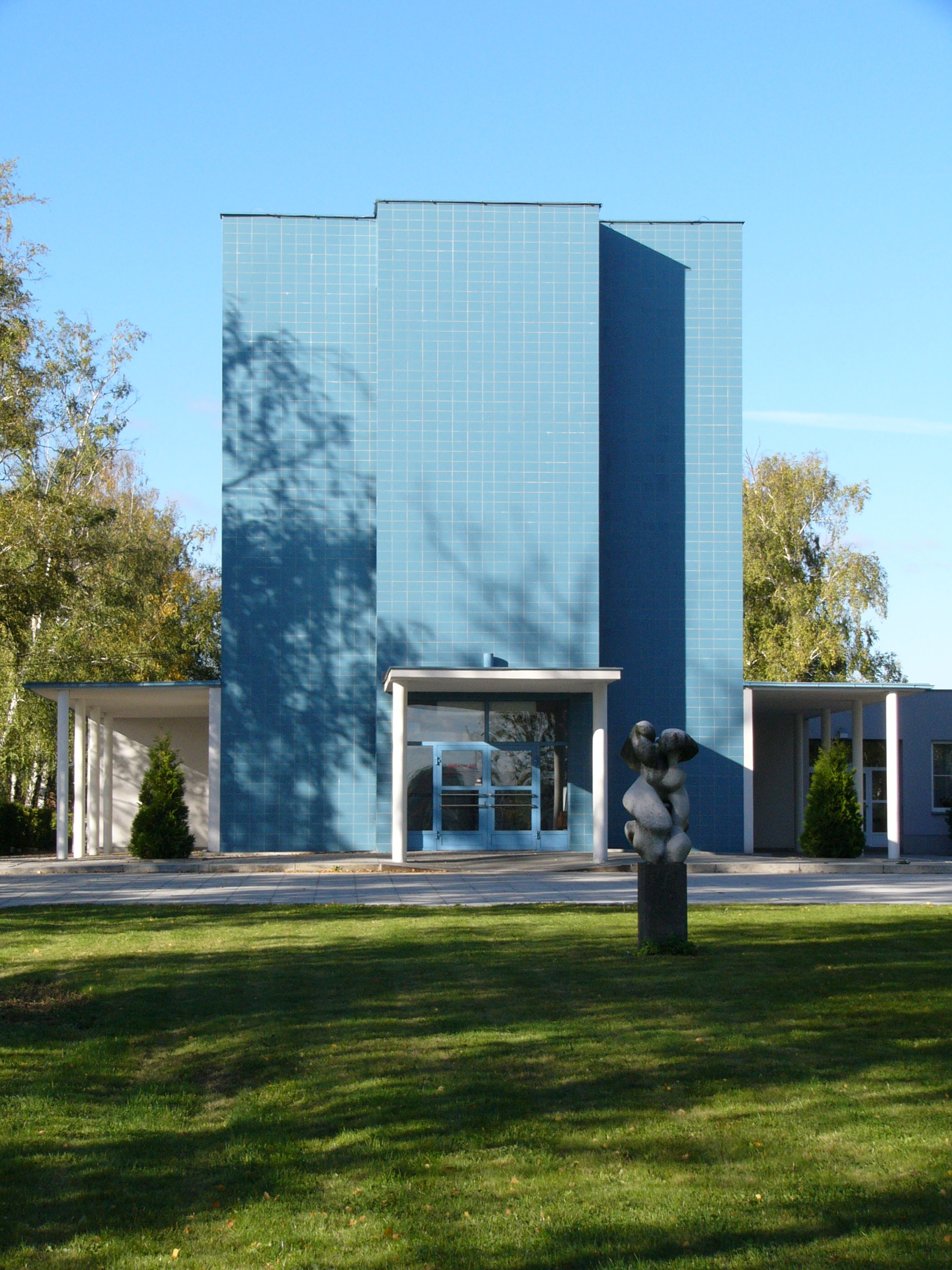 Crematorium at třída Míru street in Olomouc (Czech Republic) from 1931-1932.